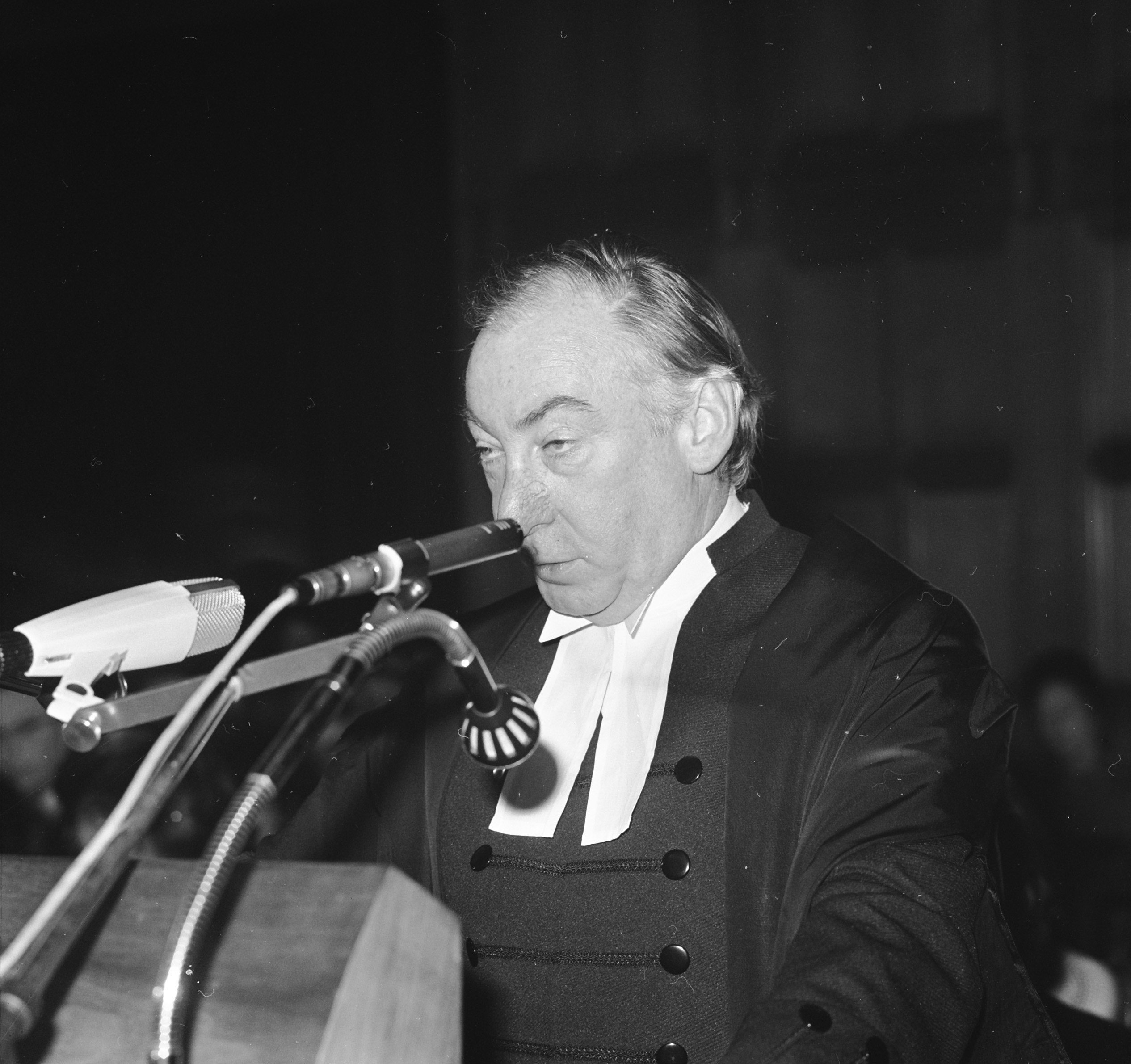 Lionel Murphy speaking at the International Court of Justice (21 May 1973), during the hearing of the Australian complaint about French nuclear test bombing